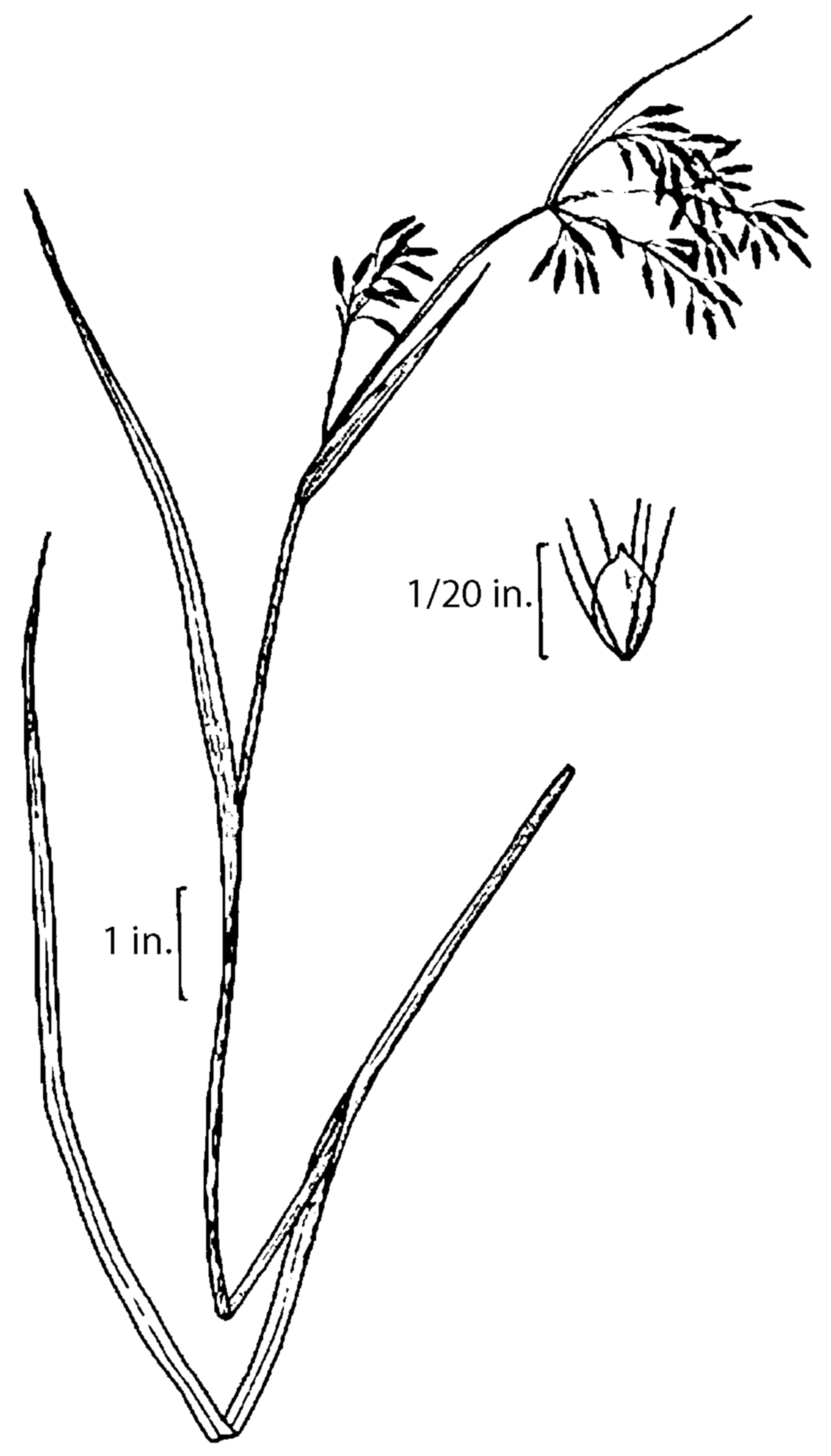 Scirpus pendulus Muhl. - rufous bulrush